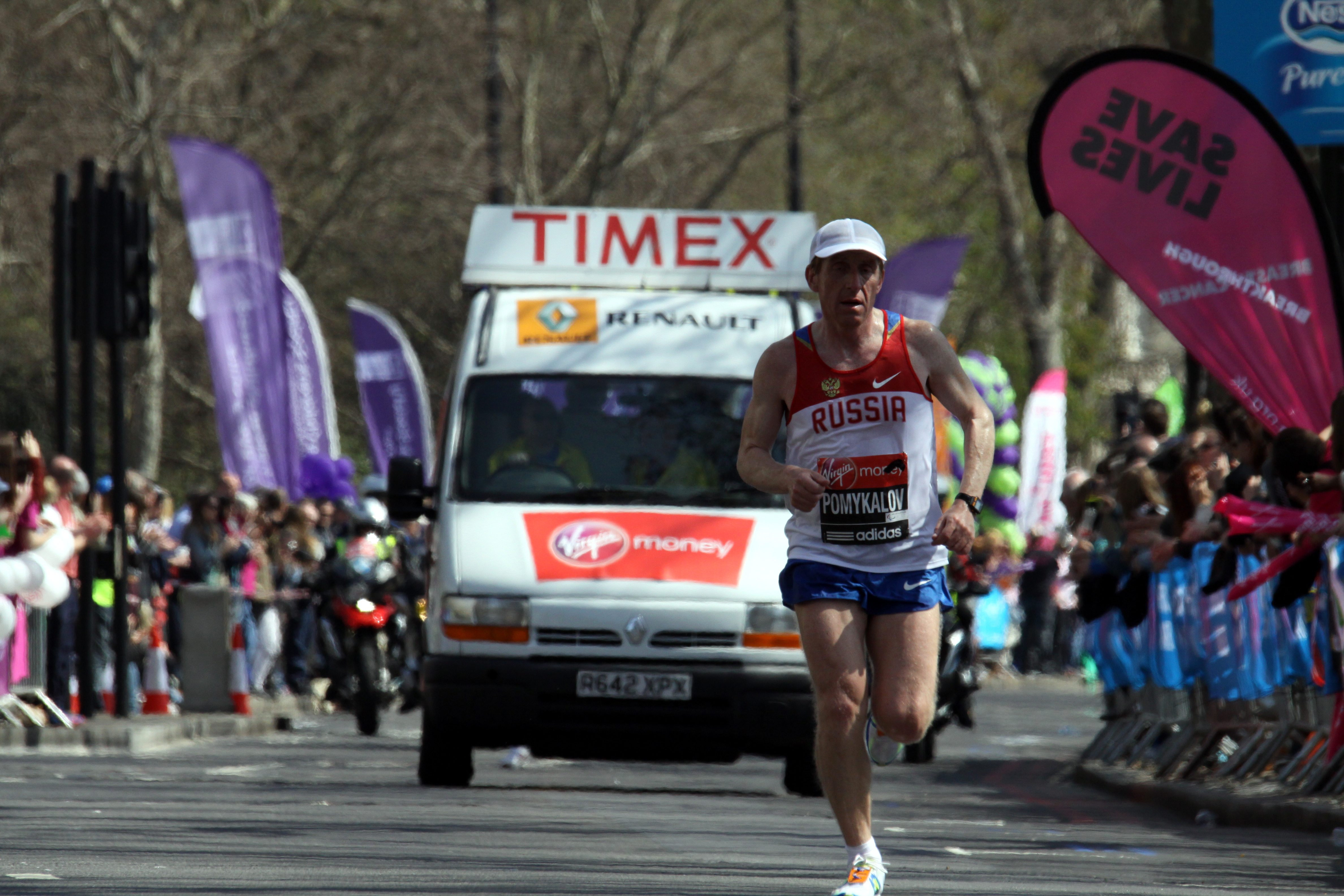 Ildar Pomykalov during 2013 London Marathon, photographed at Victoria Embankment, London, Great Britain. The making of this file was supported by Wikimedia UK. - Google Maps - Google Earth